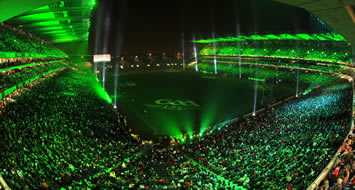 Photo of fireworks and lights display in Croke Park, Dublin to mark the 125th anniversary of the Gaelic Athletic Association. Photo taken from the corner of the Hogan Stand and Canal End after the 2009 National League game between Dublin and Tyrone.